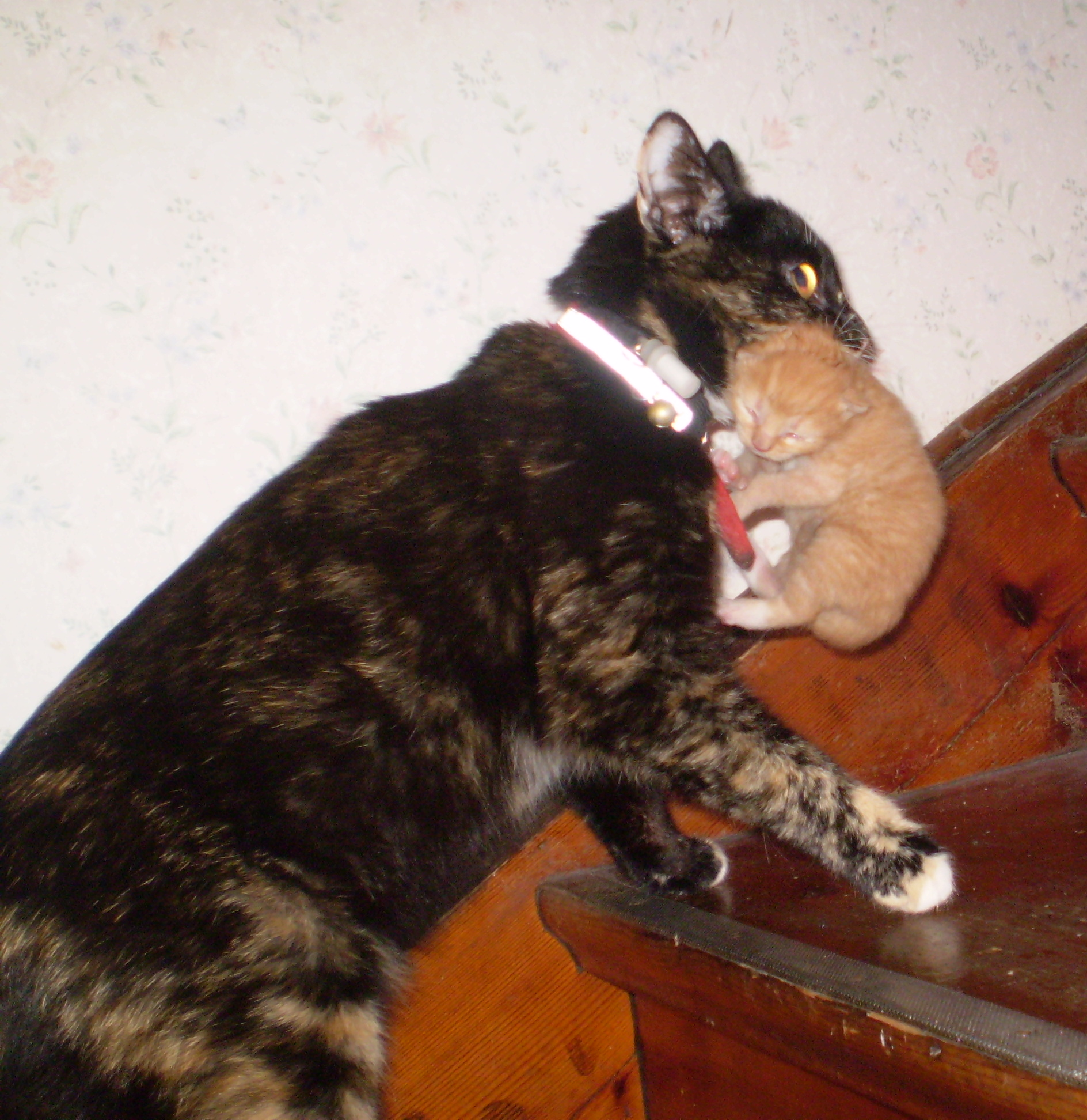 Tortoiseshell cat carrying her kitten up a flight of stairs (cropped photo). She grips the kitten's scruff in her teeth.